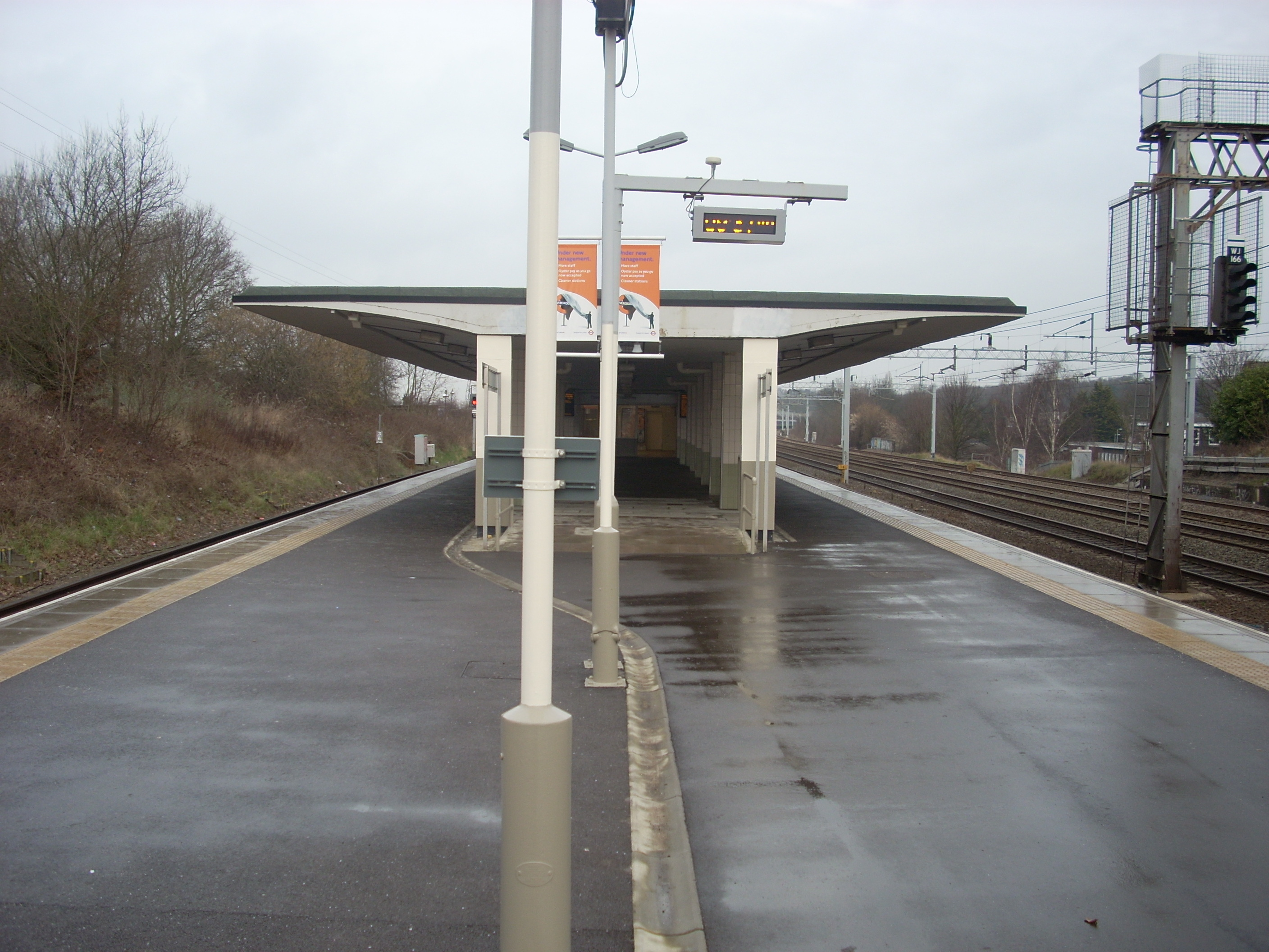 Carpenders Park railway station